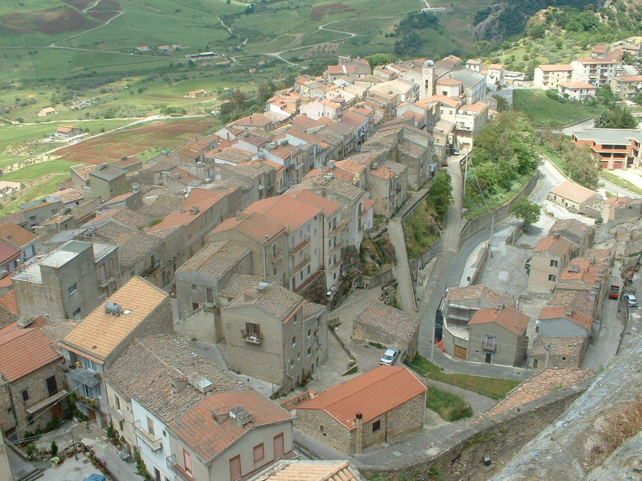 View of Sperlinga (EN) from the castle.